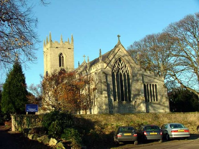 St. Bartholomews Church Sutton-cum-Lound Notts.